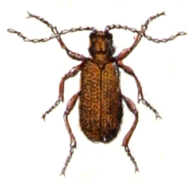 Ptinus latro, from Calwer's Käferbuch, Table 28, Picture 21. Taxonomy was updated to 2008, using mostly the sites Fauna Europaea and BioLib. Please contact Sarefo if the determination is wrong!